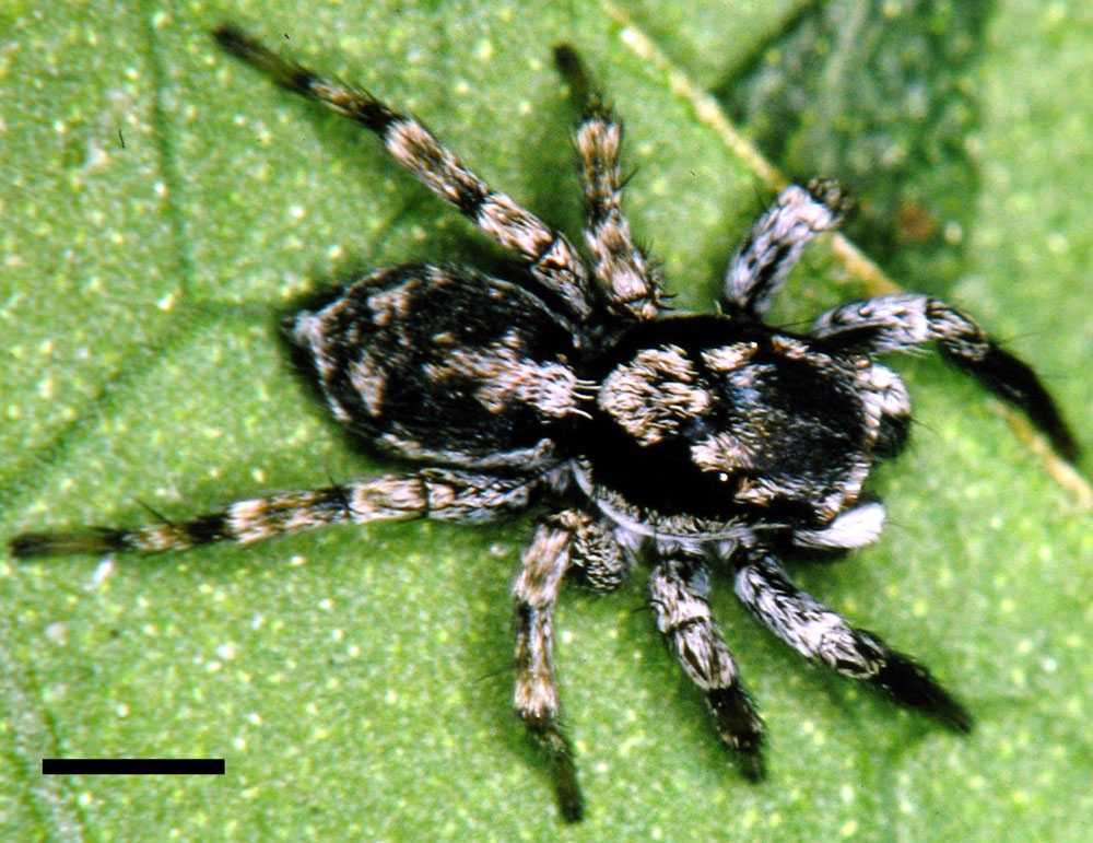 Male Naphrys pulex jumping spider from Gainesville, Alachua County, Florida, USA